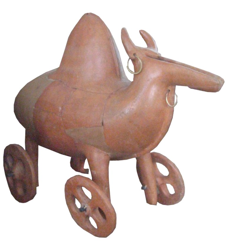 Rhyton, Amarlu (Gilan), 1st mil BC. National Museum of Iran.